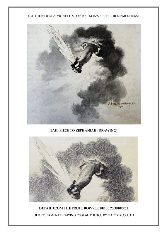 Tail-piece to Zephaniah. Zephaniah 1:4. Vignette with arm holding sword of light protruding from clouds; letterpress in two columns above. c.1790-1800. Inscriptions: Lettered below image, "P J de Loutherbourg R.A. invt.", "J. Heath dirext." Print made by James Heath. Dimensions: Height: 488 millimetres (sheet); width: 393 millimetres (sheet).